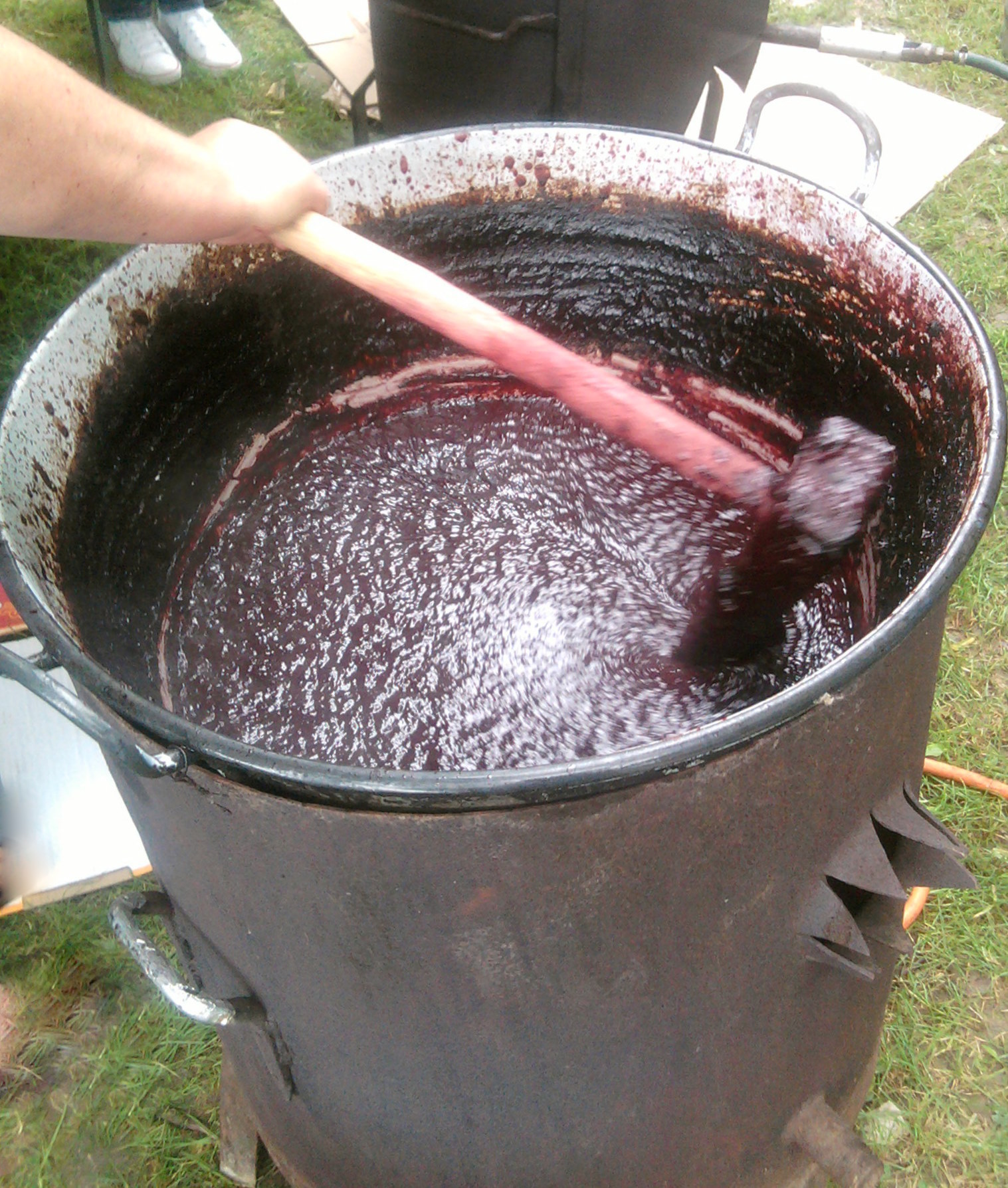 Plum jam cooking in Kétbodony, Hungary